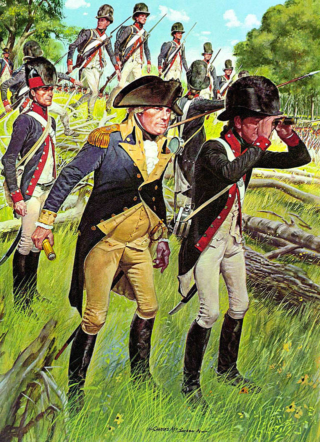 Legion of the United States 1794. Major General "Mad Anthony Wayne is pictured in the center. The Army that on 20 August 1794 at the Battle of Fallen Timbers avenged the defeats suffered at the hands of the Indians in 1790 and 1791 was the creation of Major General Anthony Wayne. General Wayne insisted on rigid discipline and strict training. Conscious of the welfare of his men, he· saw to it that supplies were adequate and equipment satisfactory. The Army at this time was reorganized into a "legion," a term widely used during the eighteenth century to mean a composite organization of all combat arms under one connnand. The Army, instead of being composed of regiments, was made up of four sub-legions, each commanded by a brigadier general and each consist­ing of two infantry battalions, one battalion of riflemen, one troop of dragoons, and one company of artillery. To develop esprit de corps, Wayne had each sub-legion wear distinctive insignia. General Wayne, in the left foreground, is wearing the general officer's uniform of blue coat faced and lined with buff, and buff vest and breeches established during the Revolutionary War. He has the two silver stars of a major general on his gold epaulettes. To the left rear of the general is a dragoon orderly in his bearskin crested leather cap with a _red turban, denoting that he is a member of the second sub-legion. The orderly's blue uniform coat faced with red and lined with white and white vest and breeches were established for all the cavalry and infantry in 1782. In the right foreground is an infantry subaltern, distinguished by an epaulette on his left shoulder and his unbound bearskin crested hat; the colors of his u­niform are the same as that of the dragoon. In the background men of the First Sub-Legion, distinguishable by the white binding and black bearskin crests on their hats, advance, led by a captain armed with an espontoon.